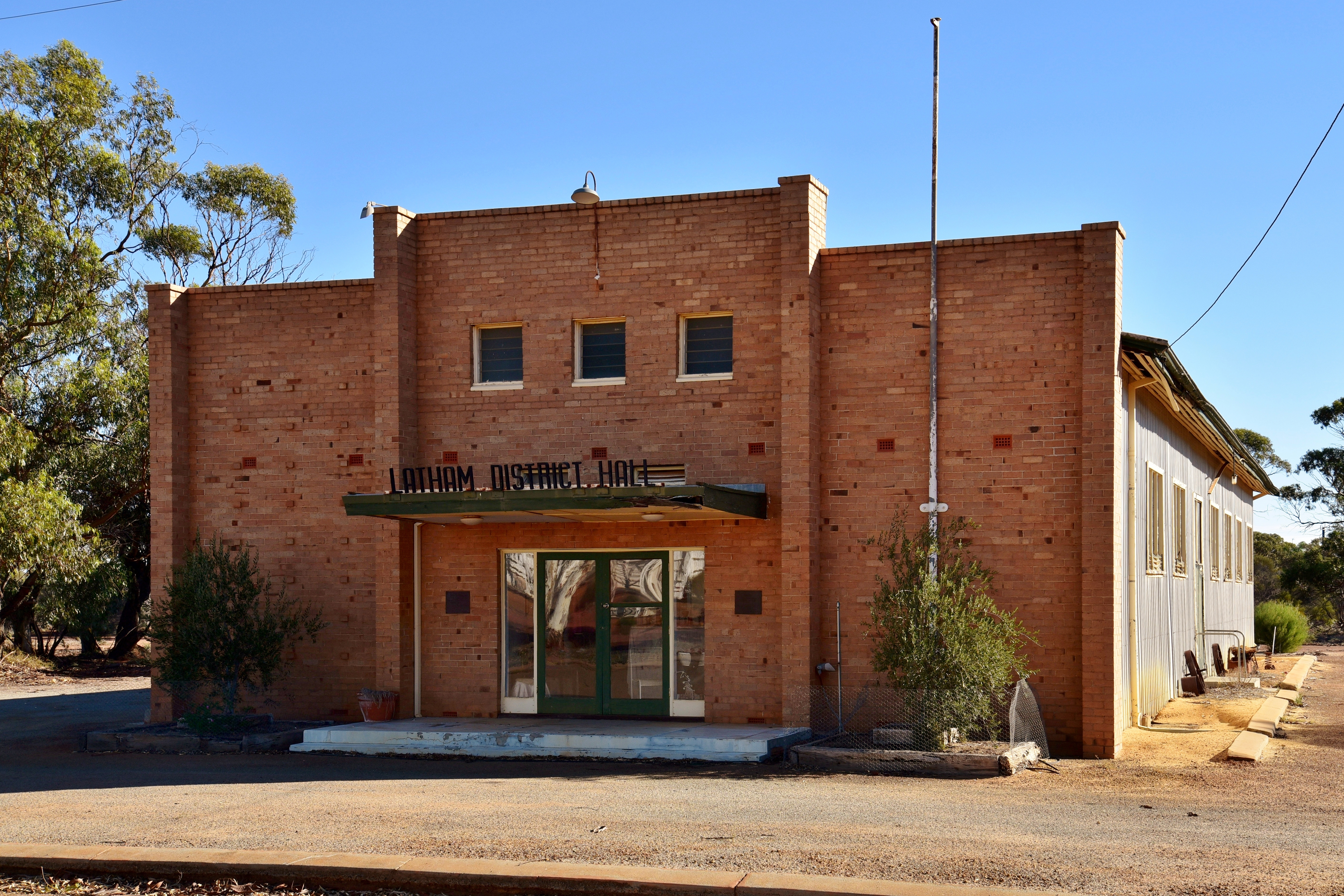 View of Latham District Hall, Latham, Western Australia